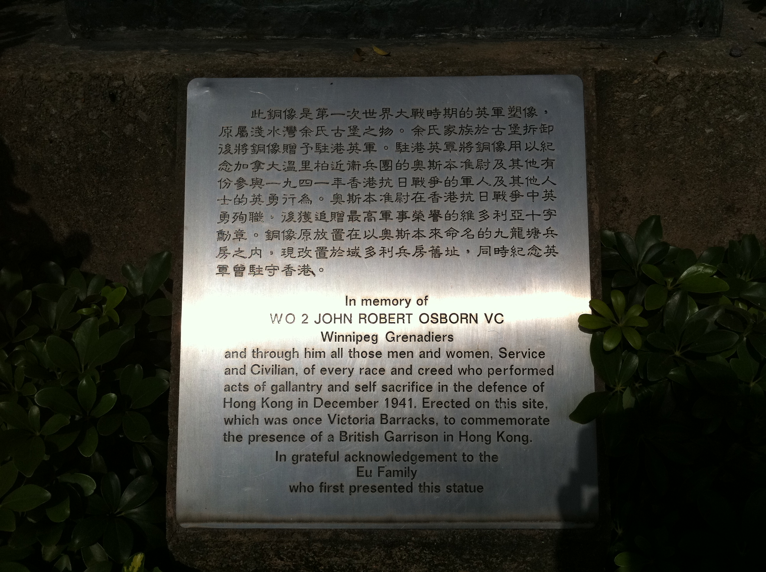 John Robert Osborn, 約翰·羅伯特·奧士本, Bronze statue, Hong Kong Park, Central, Hong Kong